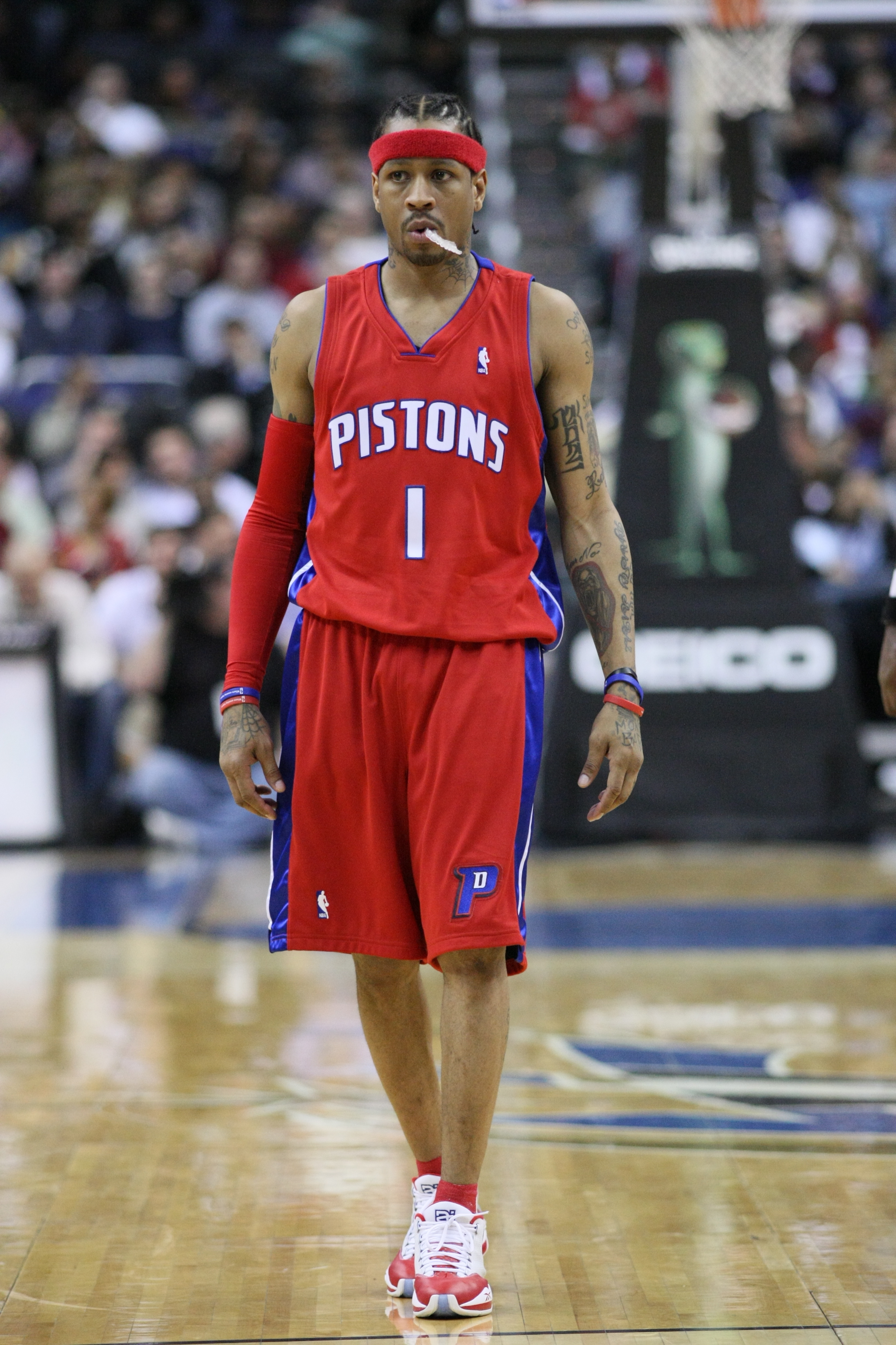 Allen Iverson during his tenure with the Detroit Pistons.